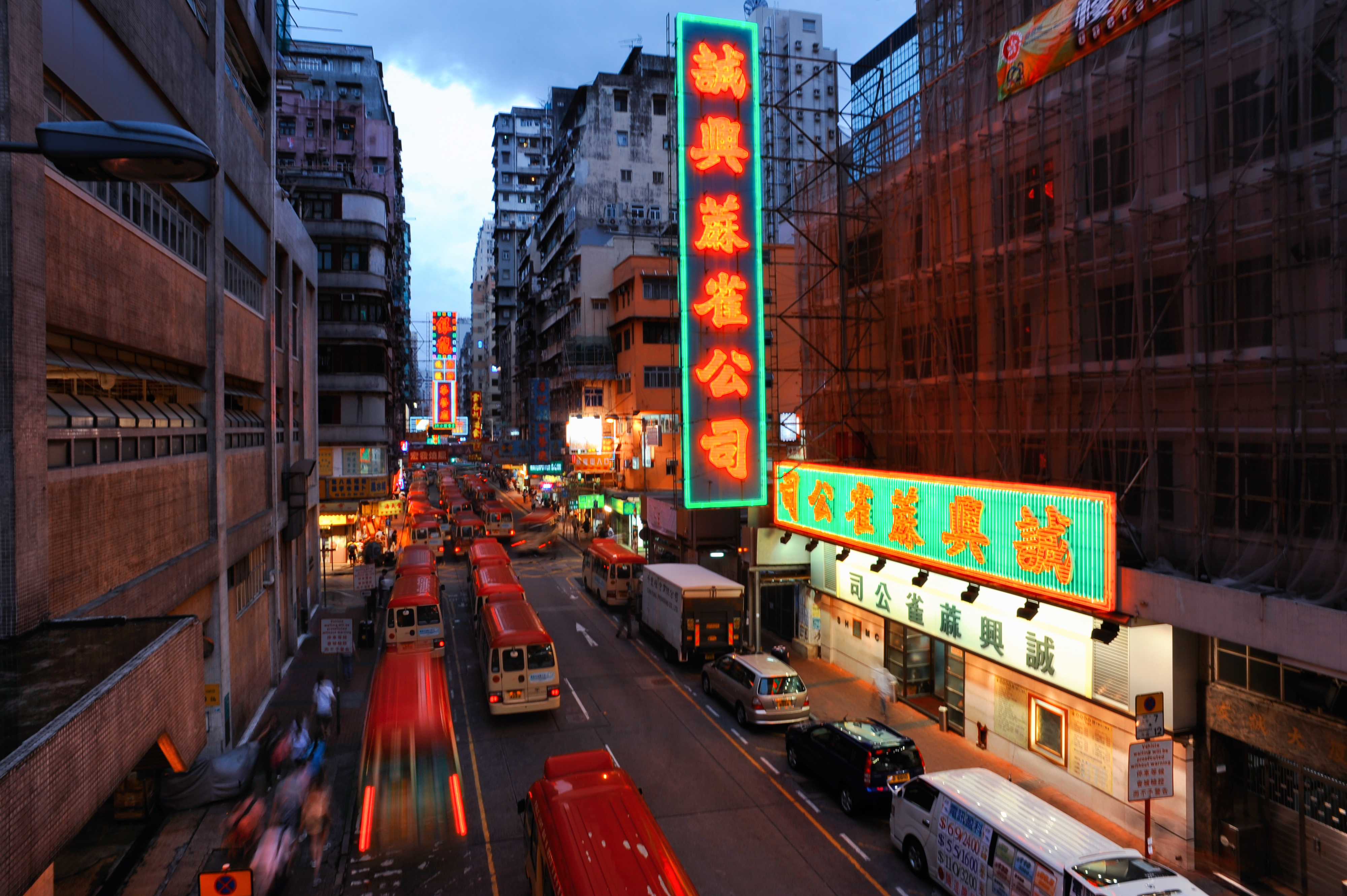 Streets of Hong Kong, China, East Asia.